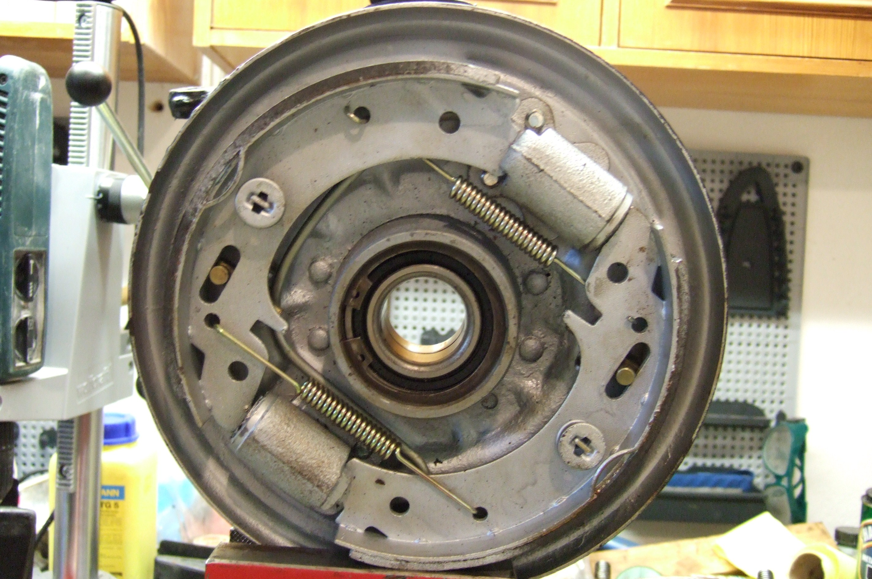 Dismounted duplex brake of an East German IFA Trabant 601 without brake drum.